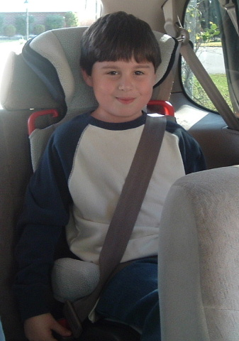 this is my son in a star riser booster